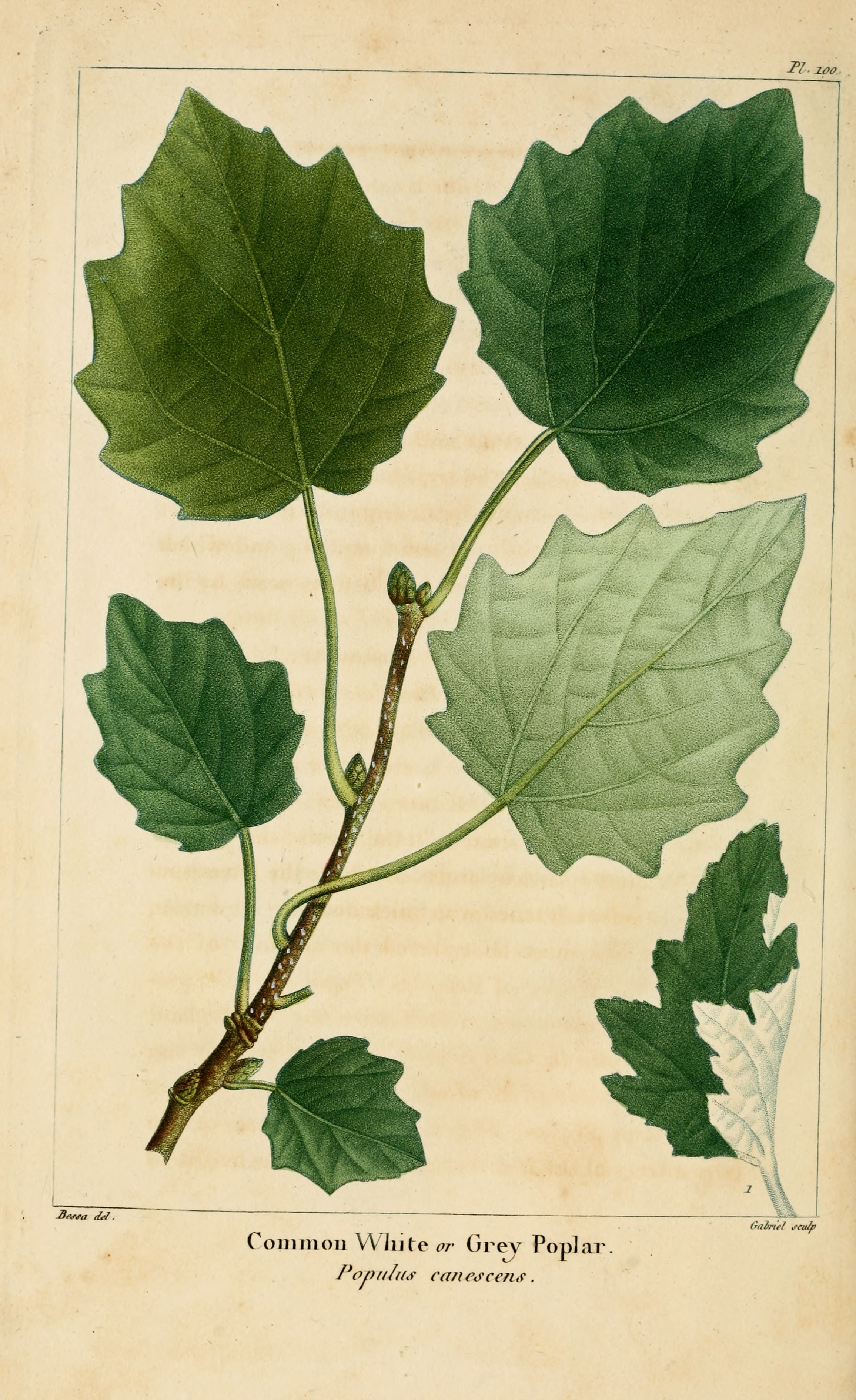 Plate 100 from The North American Sylva: Populus × canescens [alba × tremula]. (Original caption: Common White or Grey Poplar. Populus canescens.)